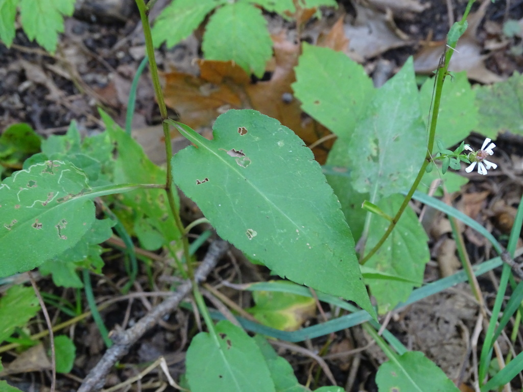 Symphyotrichum urophyllum (arrow-leaved aster) leaf, Windsor, Ontario, Canada